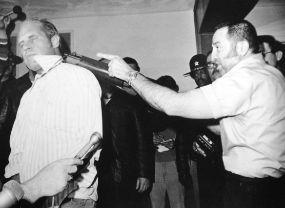 Photo of kidnapper Anthony Kiritsis holding mortgage broker Richard Hall hostage with a shotgun pointed to his head. Winner of the 1978 Pulitzer Prize for Spot News Photography.